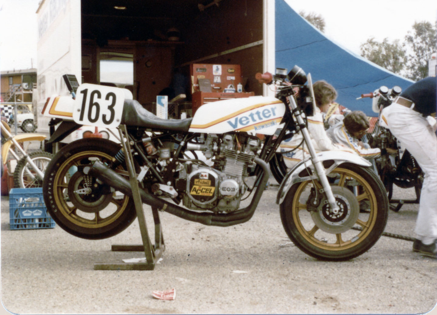 Vetter Kawasaki Superbike team at Sears Point in 1979. In conference to right of machine are Reg Pridmore (on left seated) and Keith Code, crouching.